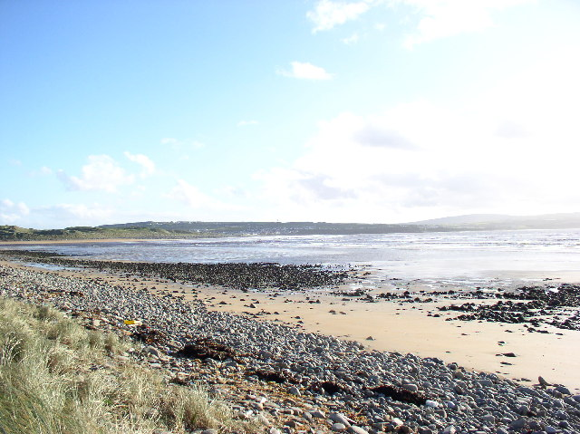 Shingle Beach. The beach near Liscannor.